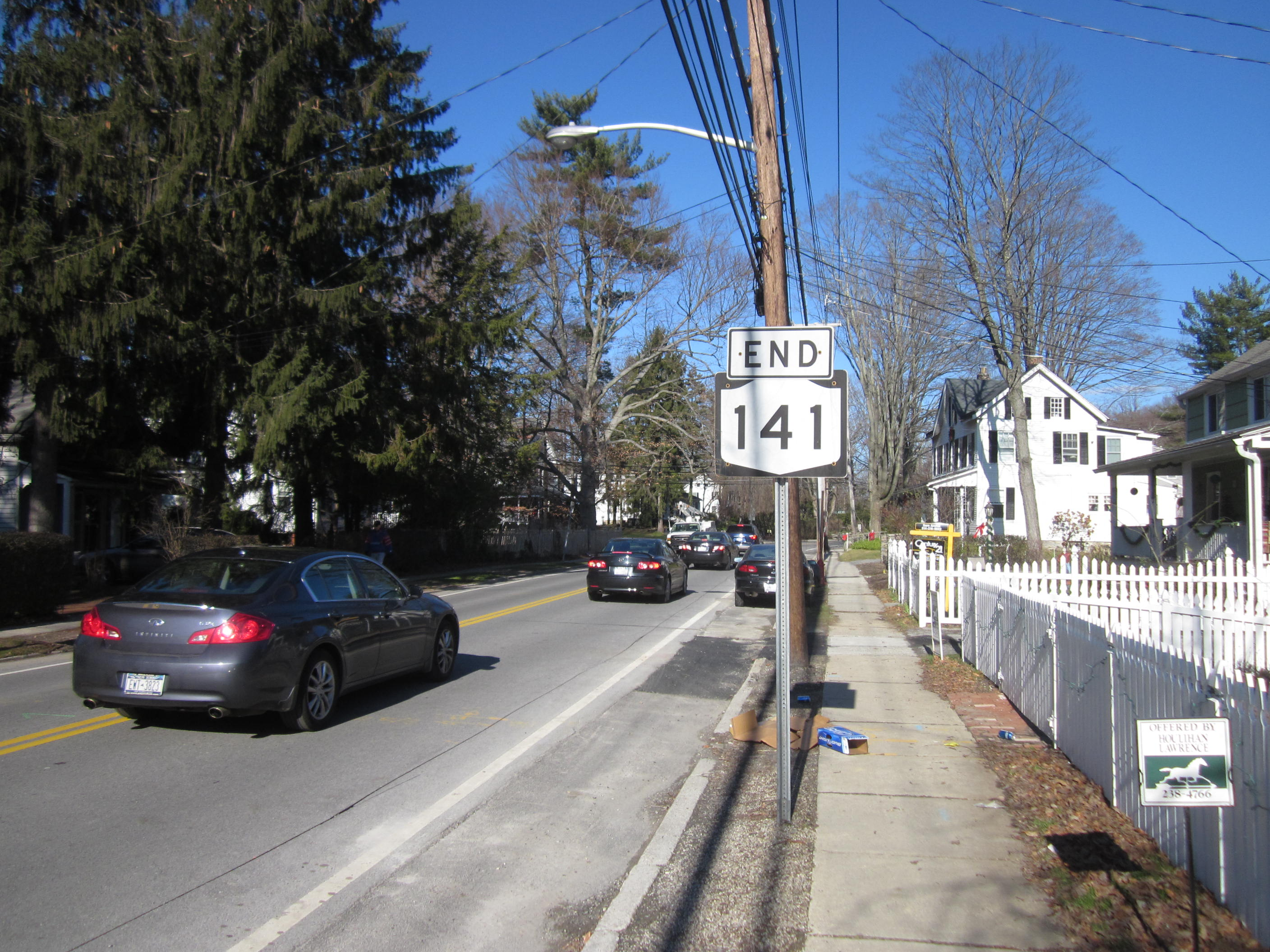 New York State Route 141 northbound approaching the terminus at Route 117 in Pleasantville, New York.